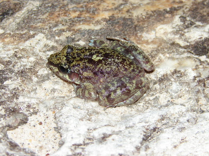 Thoropa megatympanum